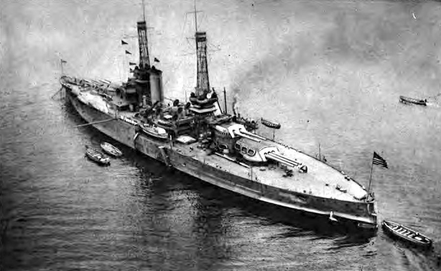 . The lack of ship-on-ship gun battles somewhat took the luster off the dreadnaught reputation.